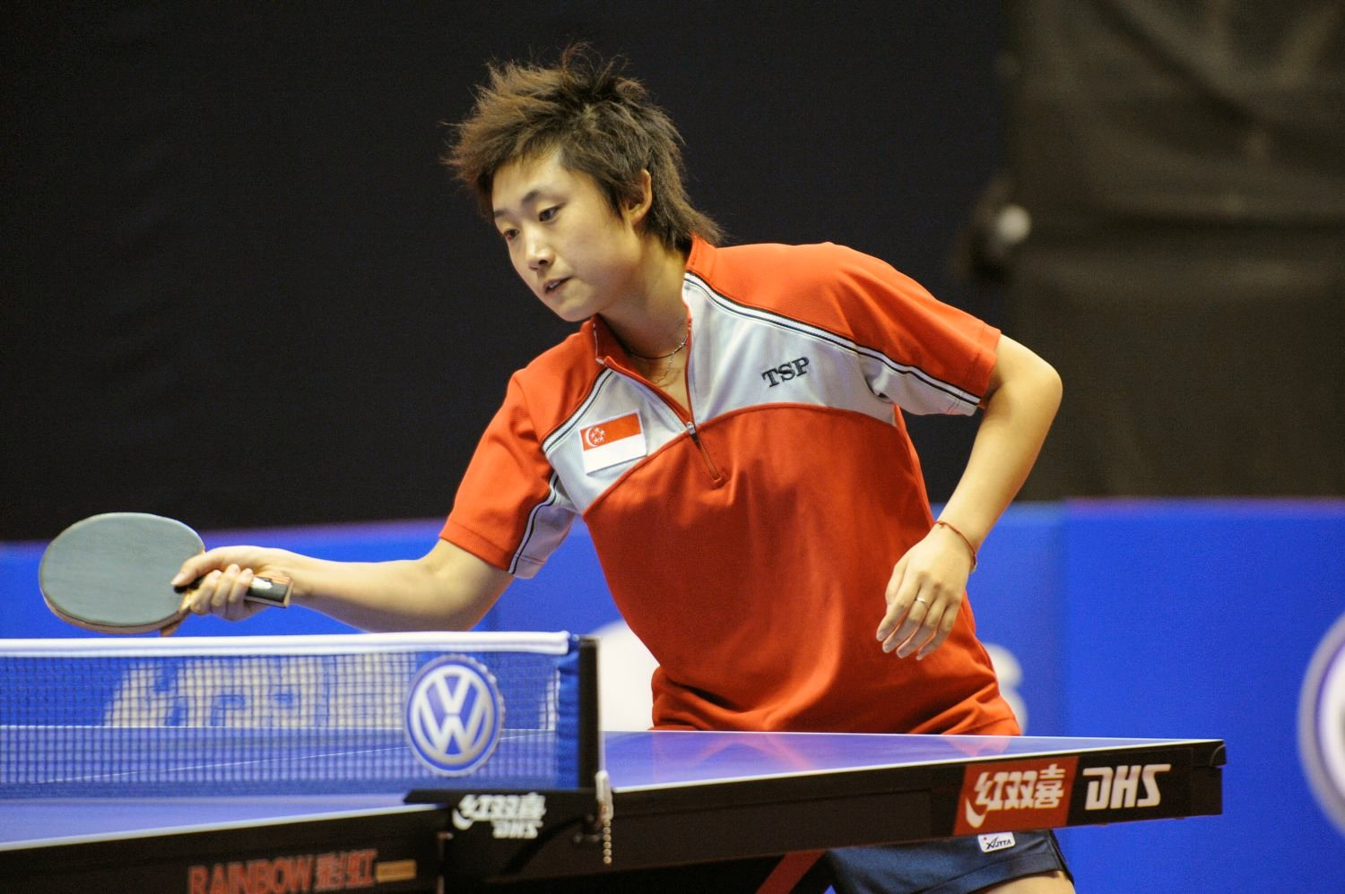 Singaporean table tennis player Feng Tianwei (born 31 August 1986) during her quarterfinal match against China's Guo Yue at the Volkswagen Women's World Cup in Kuala Lumpur, Malaysia.